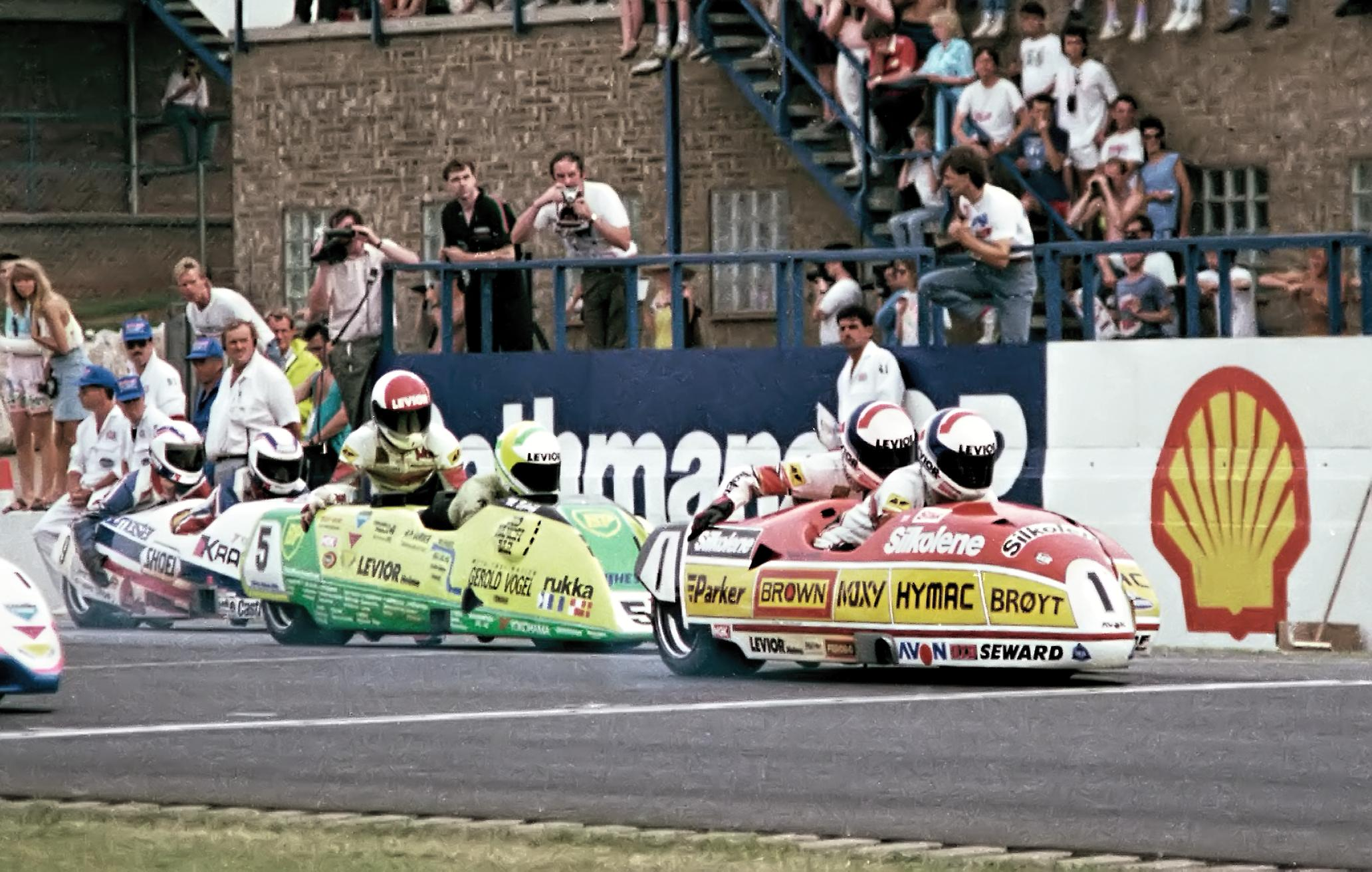 The start of the official Sidecar race at the 1989 British Grand Prix.